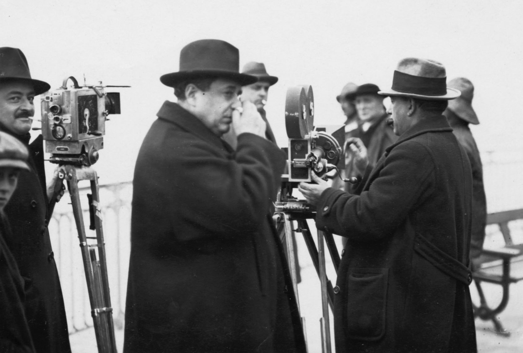 Léonce Perret's photo.